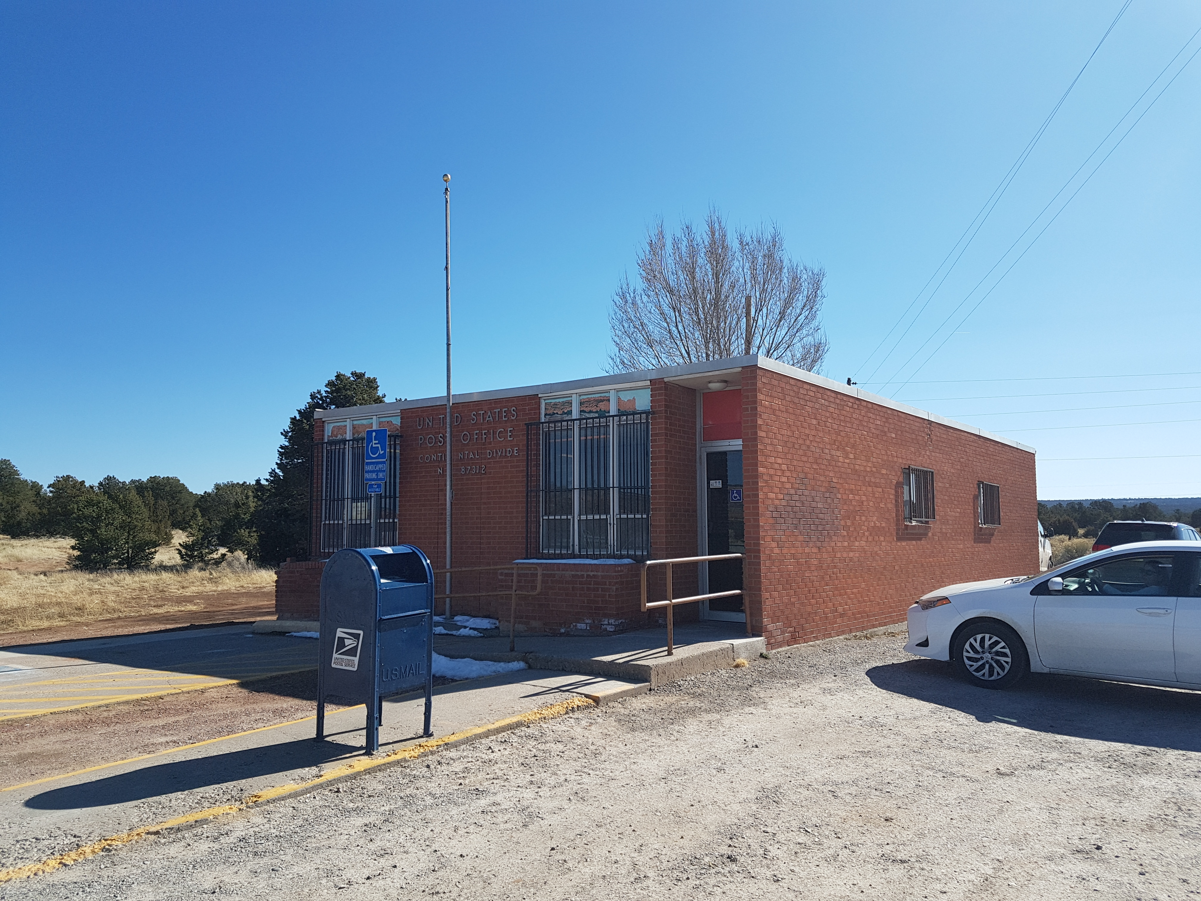 Post Office at 40 Wrangler Road, Continental Divide, New Mexico, 87312). Picture taken by Thomas M. Rösner (2-March-2018).